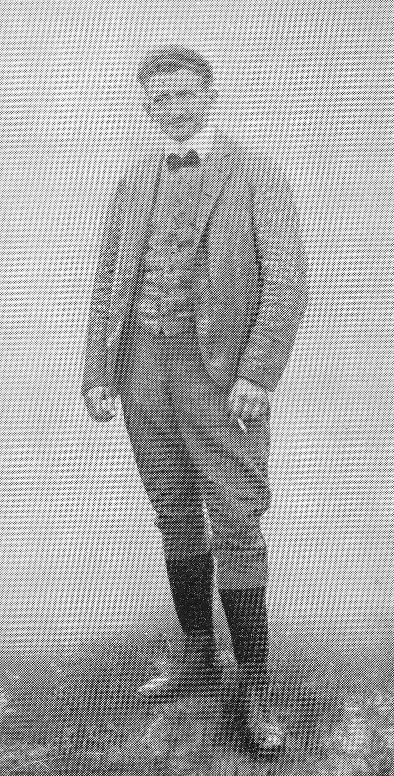 Josef Schwarzer, German cycling pacemaker